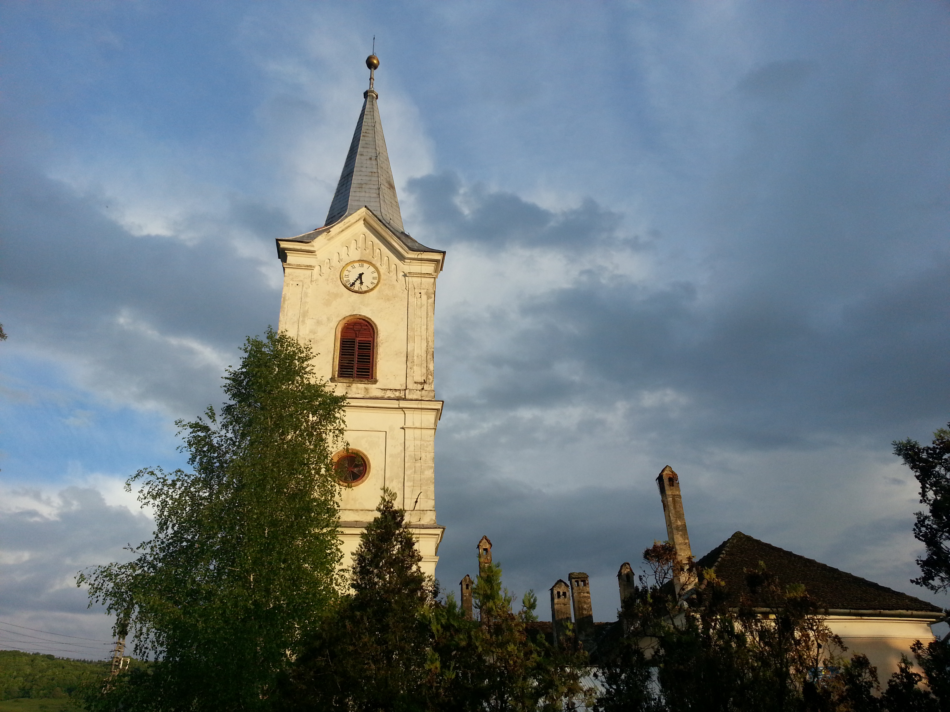 Belfry Uila